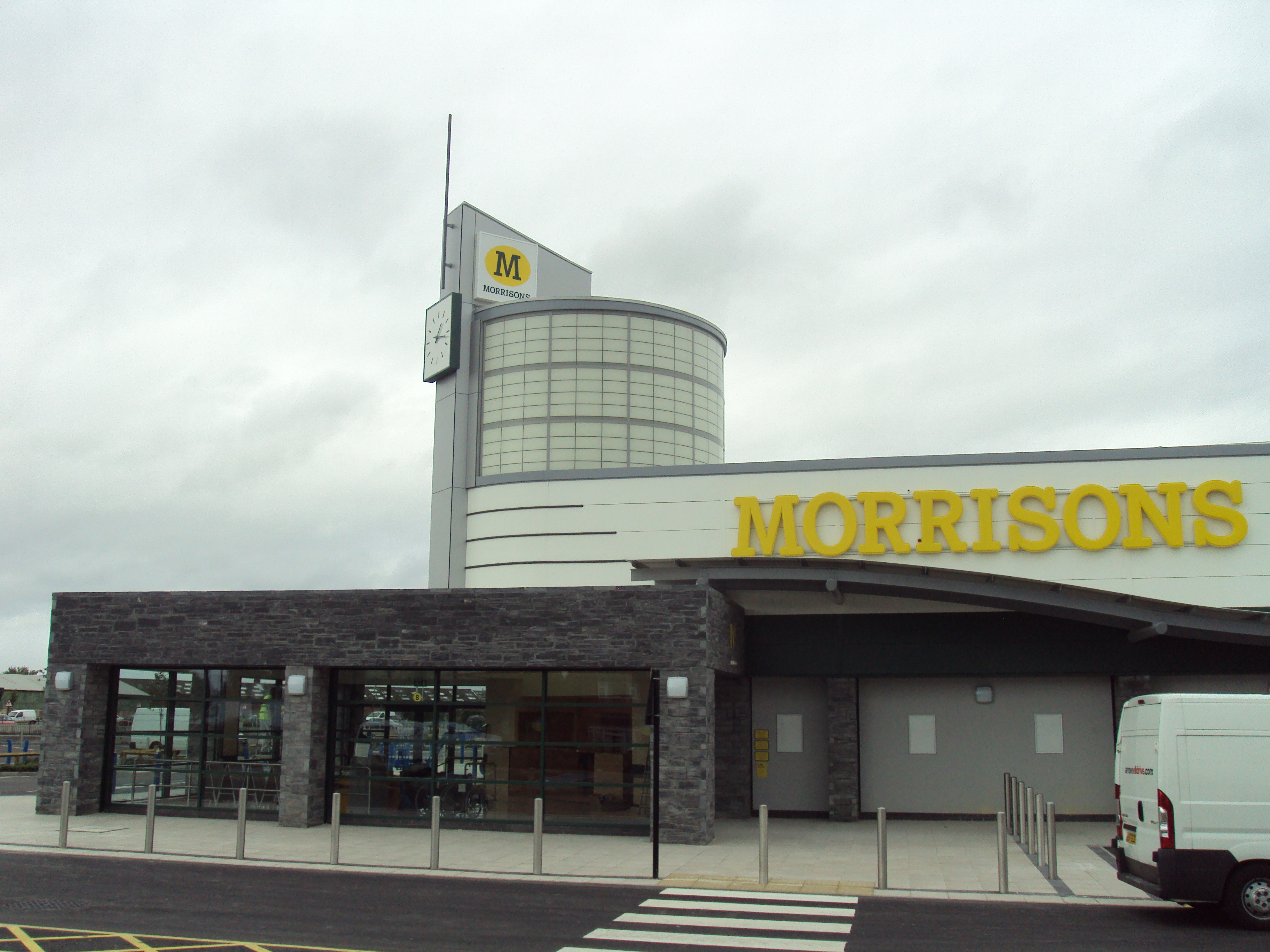 Side view of the new Morrisons Supermarket (before first opening) on High Street, Saltney, Flintshire